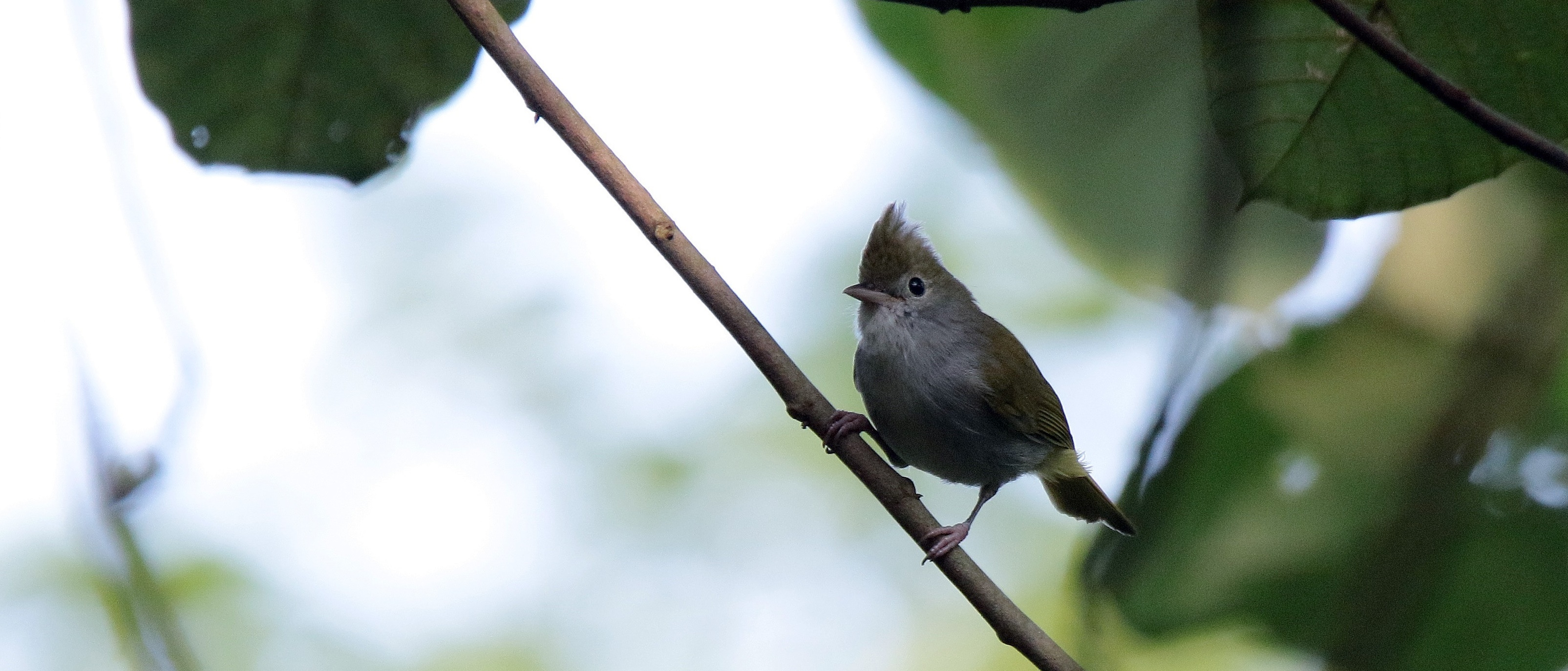 White-bellied erpornis in Ba Vi national park